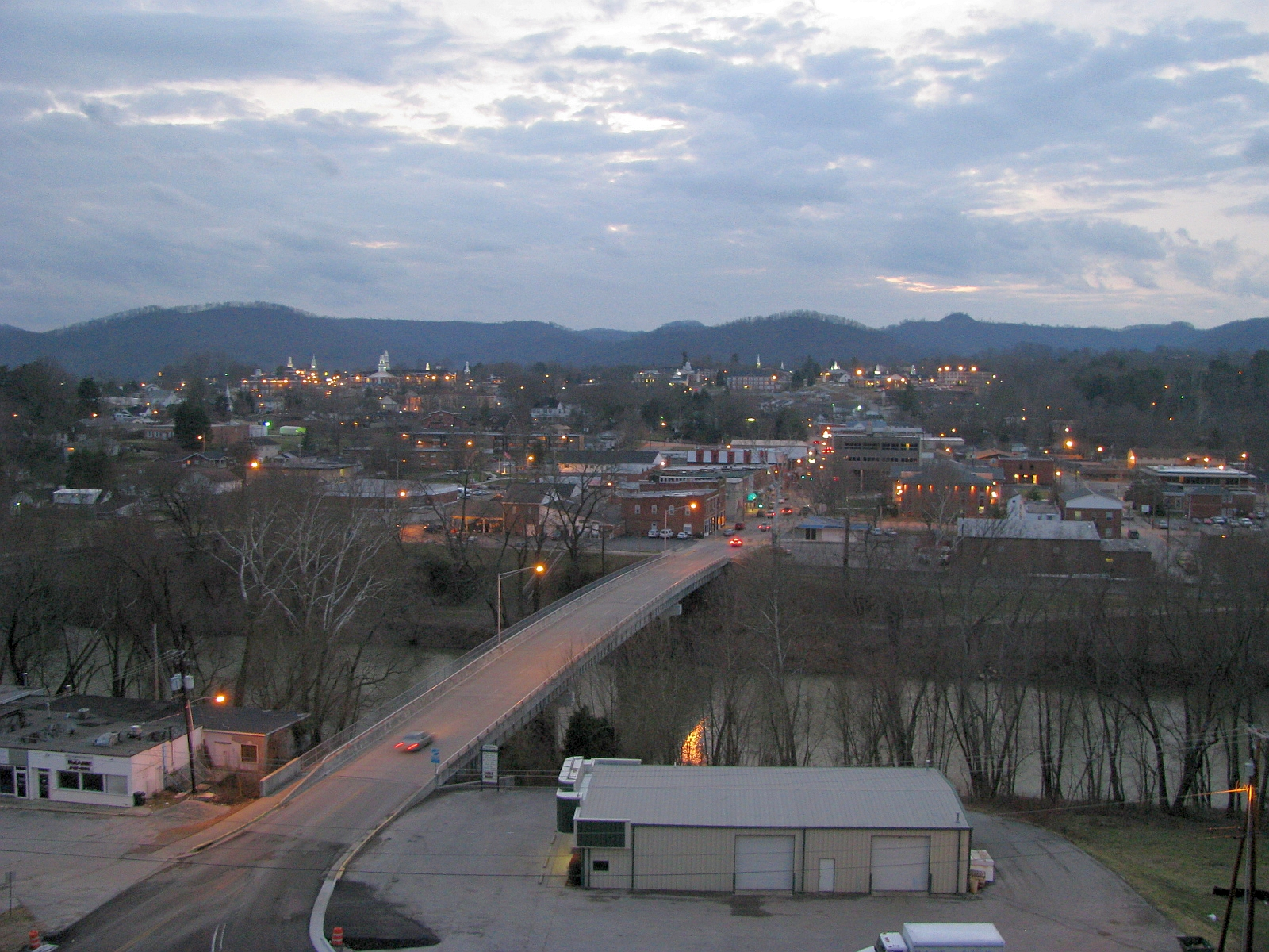 View of Williamsburg Kentucky.